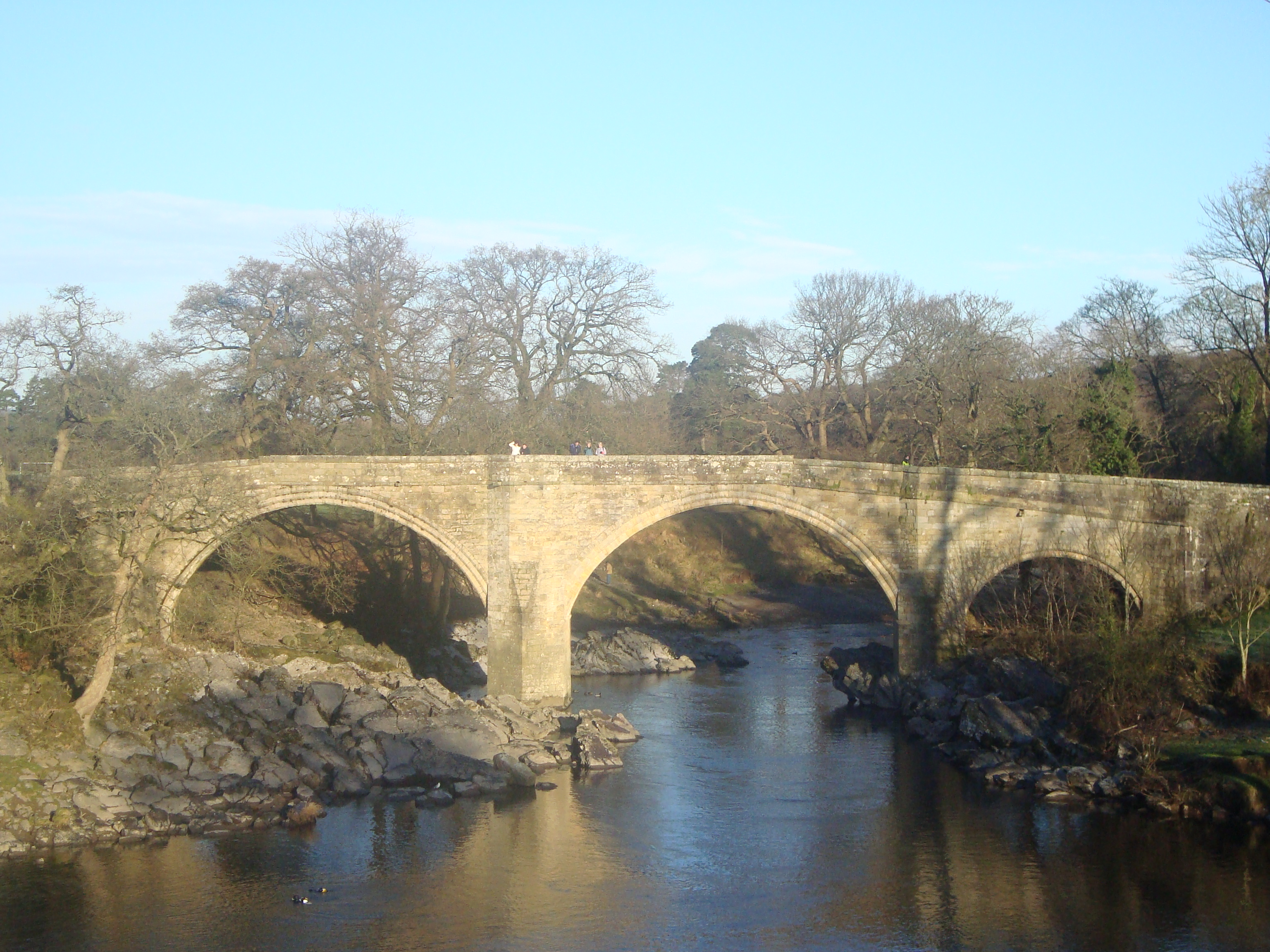 Devil's Bridge, Kirkby Lonsdale, Cumbria, UK Spans the River Lune.